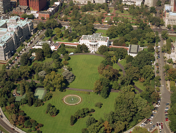 White House overview in 1984, with the Executive Residence in front of the South Lawn. On the left is the West Wing, with the Eisenhower Executive Office Building across West Executive Avenue Northwest. On the right is the East Wing. In the background are Lafayette Park and, on the left, Blair House.